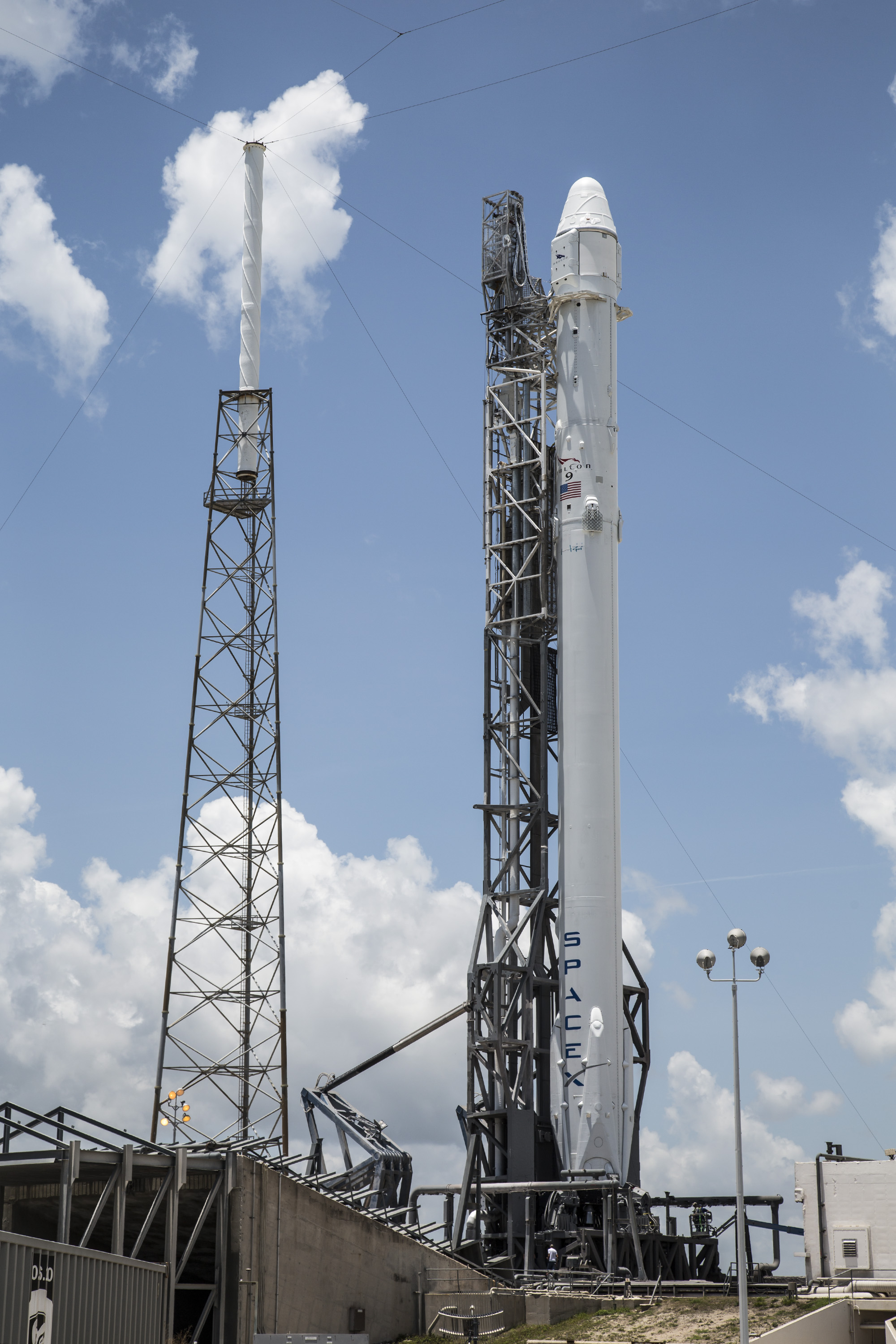 After seven successful missions to the International Space Station, including six official resupply missions for NASA, SpaceX's Falcon 9 rocket and Dragon spacecraft are set to liftoff from Launch Complex 40 at the Cape Canaveral Air Force Station, Florida, for their seventh official Commercial Resupply Services (CRS) mission to the orbiting lab. Liftoff is targeted for Sunday, June 28, 2015, at 10:21am ET. If all goes as planned, Dragon will arrive at the station approximately two days after liftoff. Dragon is expected to return to Earth approximately five weeks later for a parachute-assisted splashdown off the coast of southern California. Dragon is the only operational spacecraft capable of returning a significant amount of supplies back to Earth, including experiments.